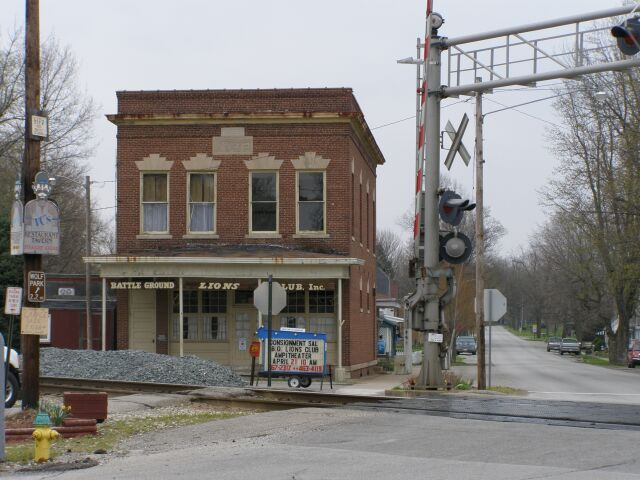 Crossing in downtown Battle Ground of the Monon Line